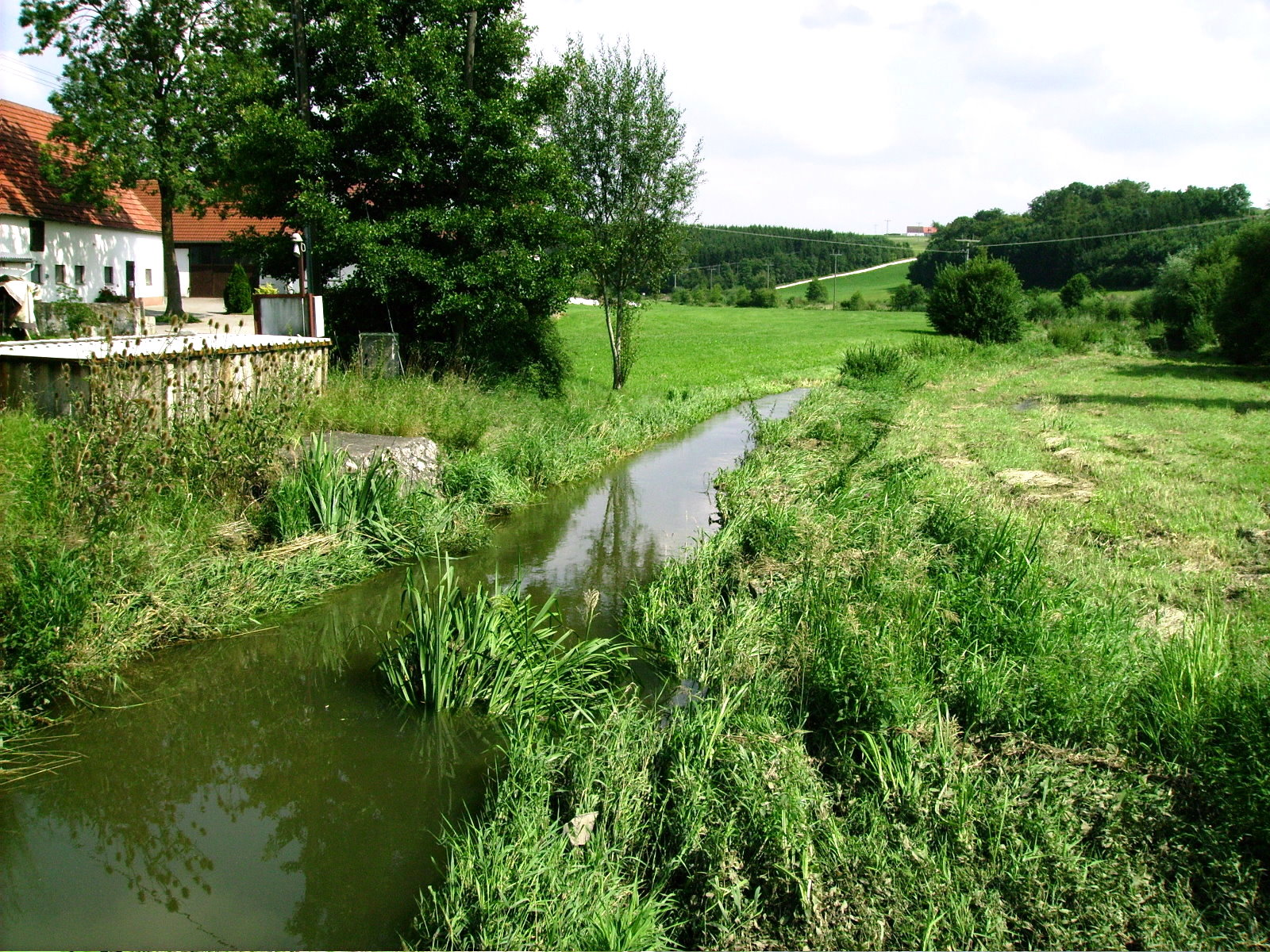 The valley of the river Kessel near Thalheim, Bissingen